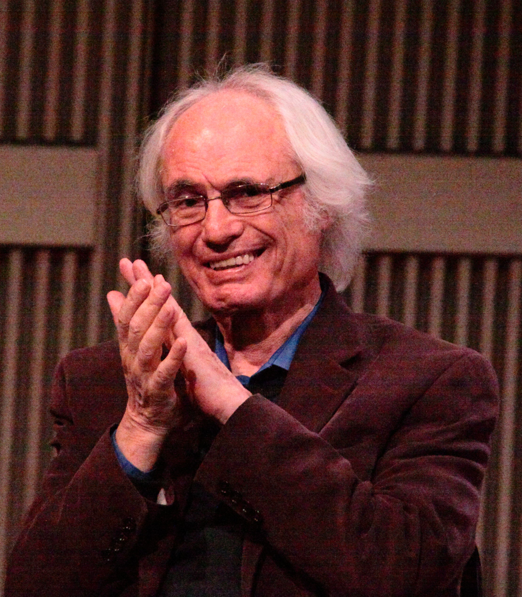 My photo of Mansurian accepting applause after a performance of one of his works at the Other Minds Festival in March, 2015 in San Francisco.